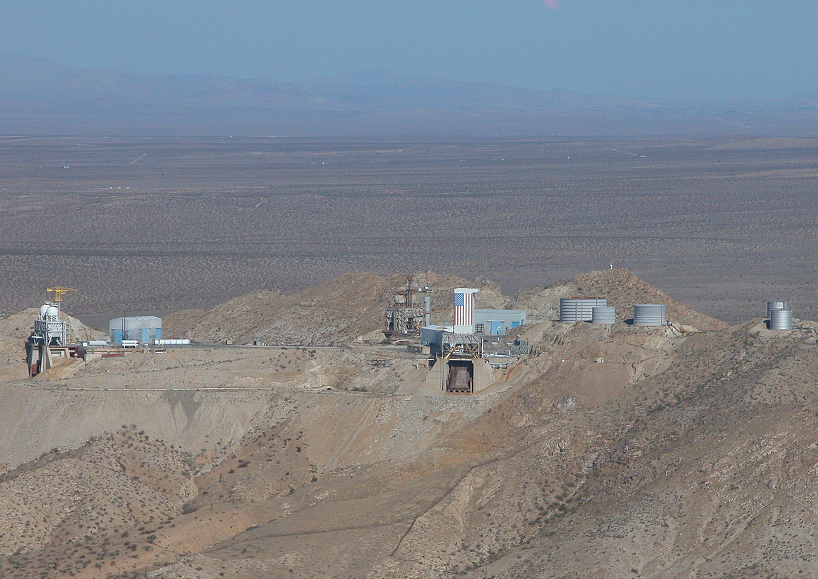 Air Force Research Lab rocket engine test stands at Edwards Air Force Base, Mojave Desert, California.